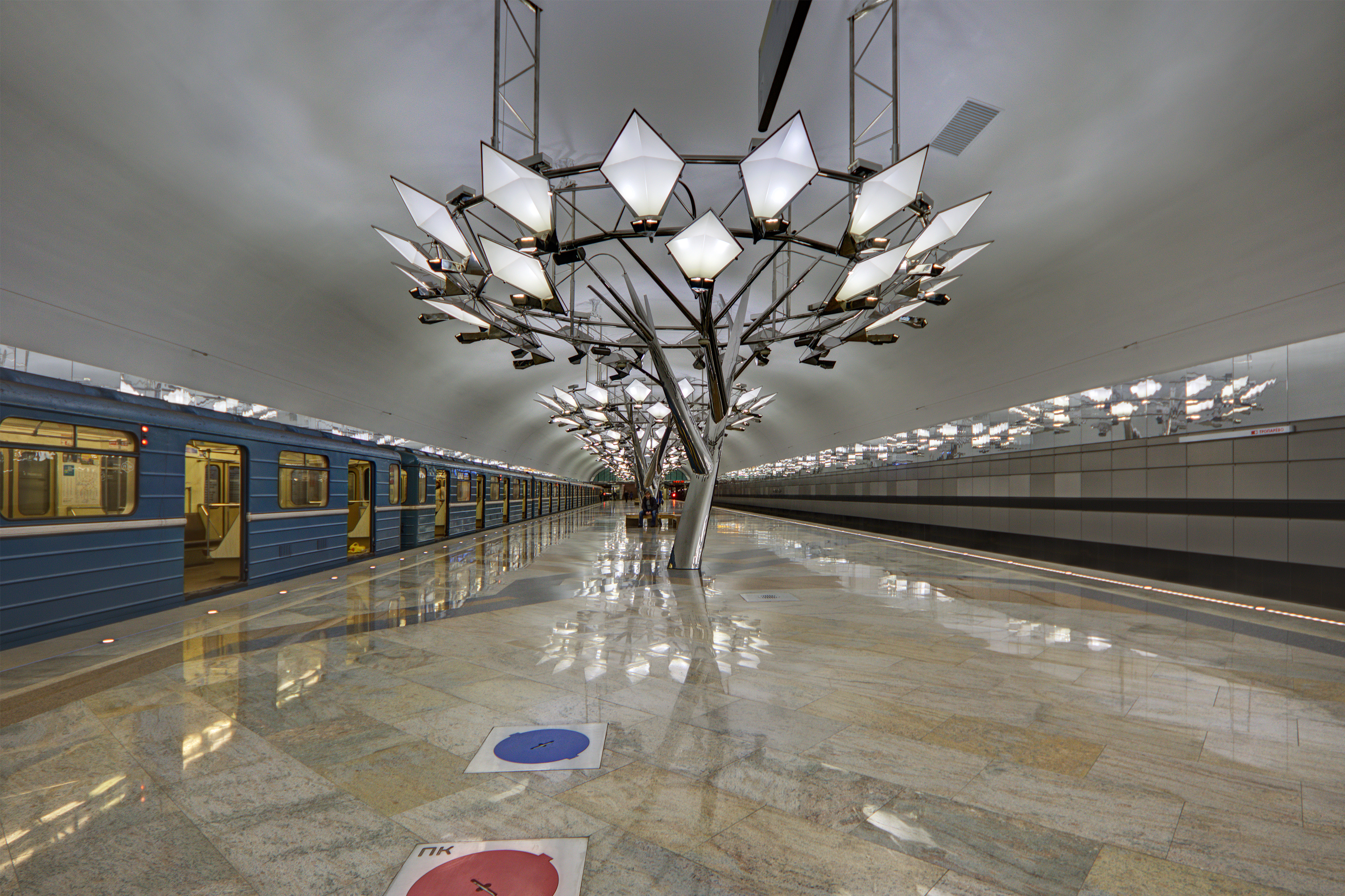 Troparyovo station of Moscow Metro / HDRI of 3 shots